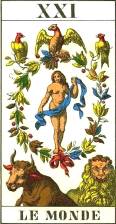 Trump 21 The World from the 1JJ tarot deck. French version.